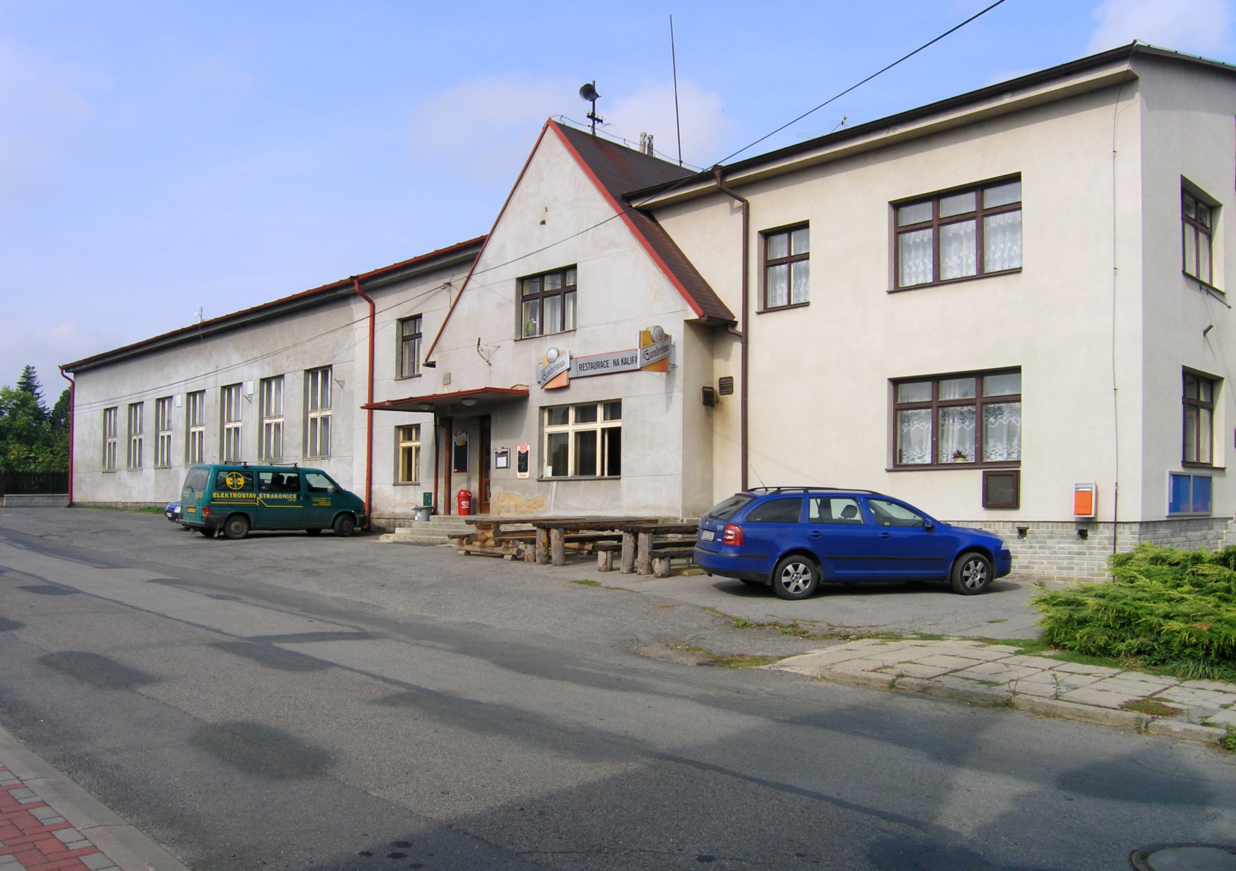 Restaurant in Kostelec u Křížků, Czech Republic